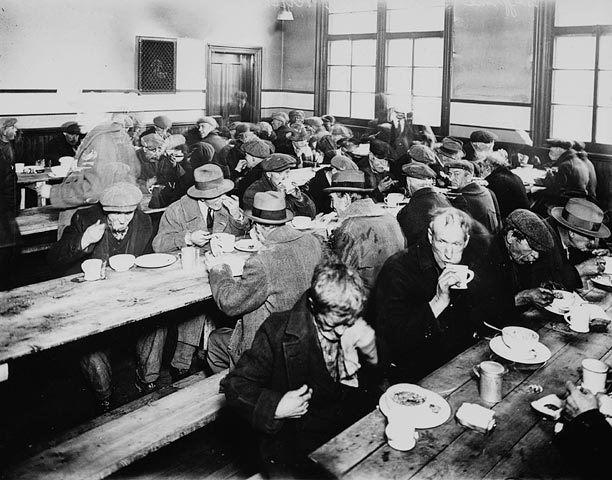 People eating at a soup kitchen. Montreal, Canada